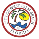 The seal of the city of West Palm Beach.